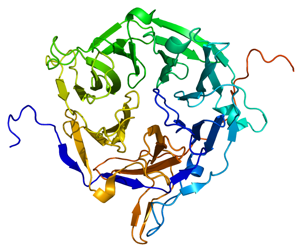 Structure of the NUP214 protein. Based on PyMOL rendering of PDB 2oit.